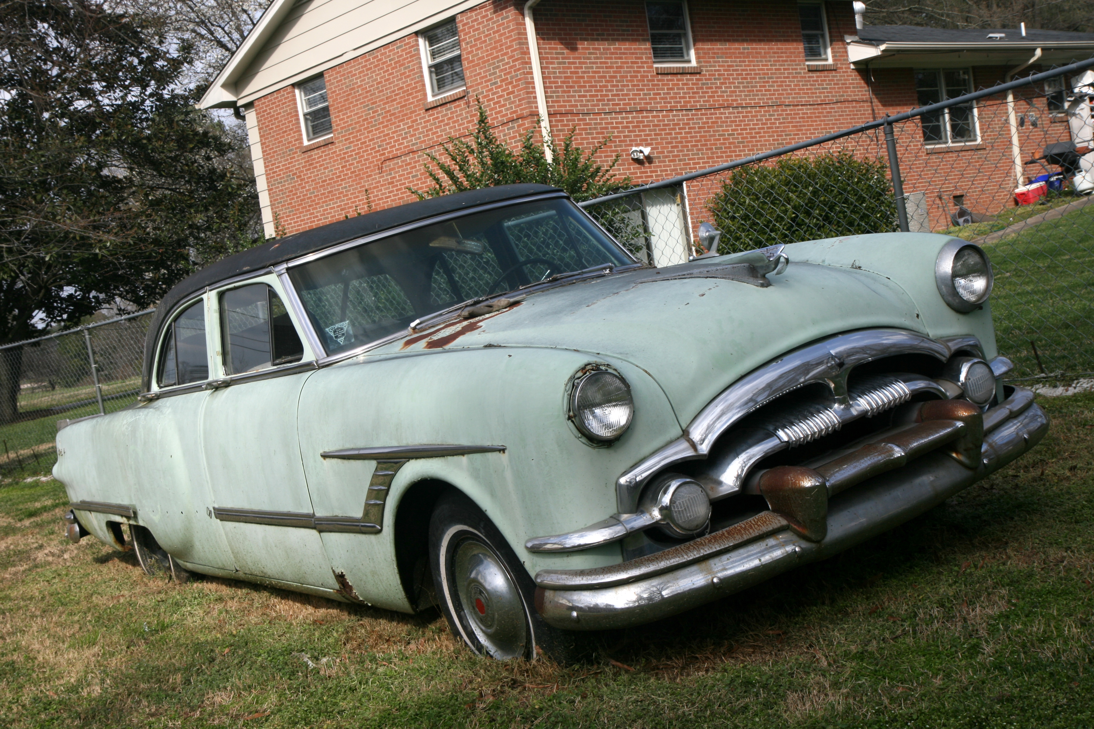 A 1953 Packard Cavalier Touring Sedan Model 2602-2672 parked in a back yard in Durham, North Carolina.